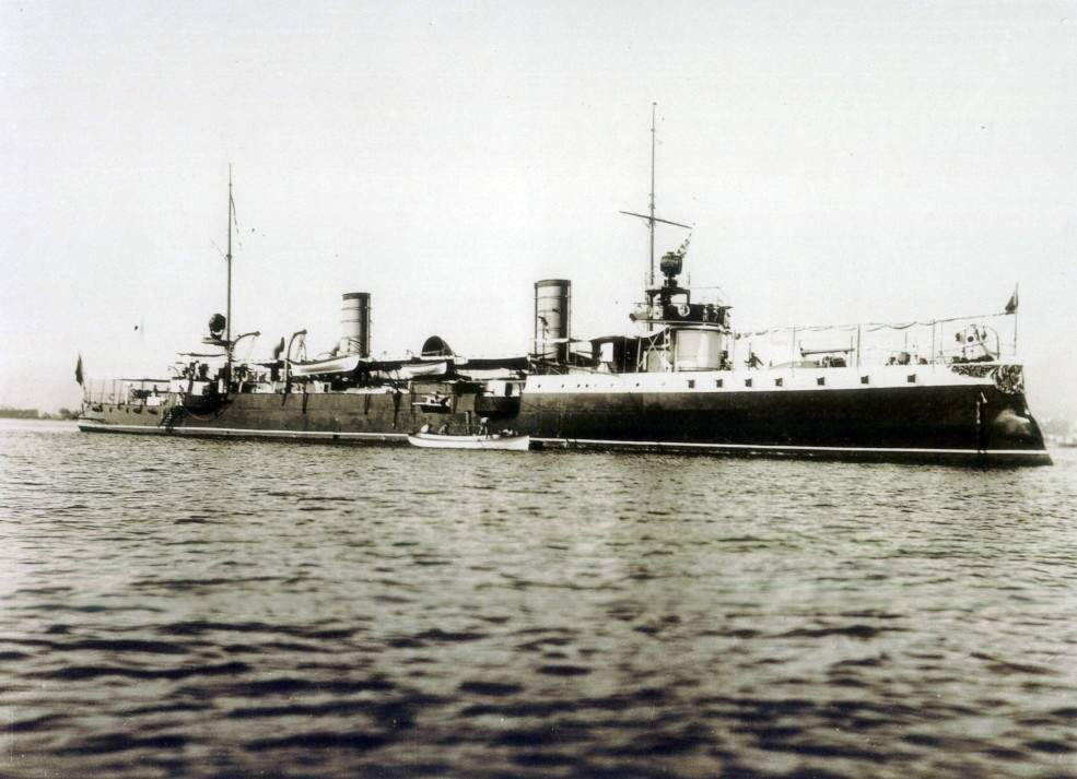 The Tupi-class torpedo cruiser Tomoio of the Brazilian Navy